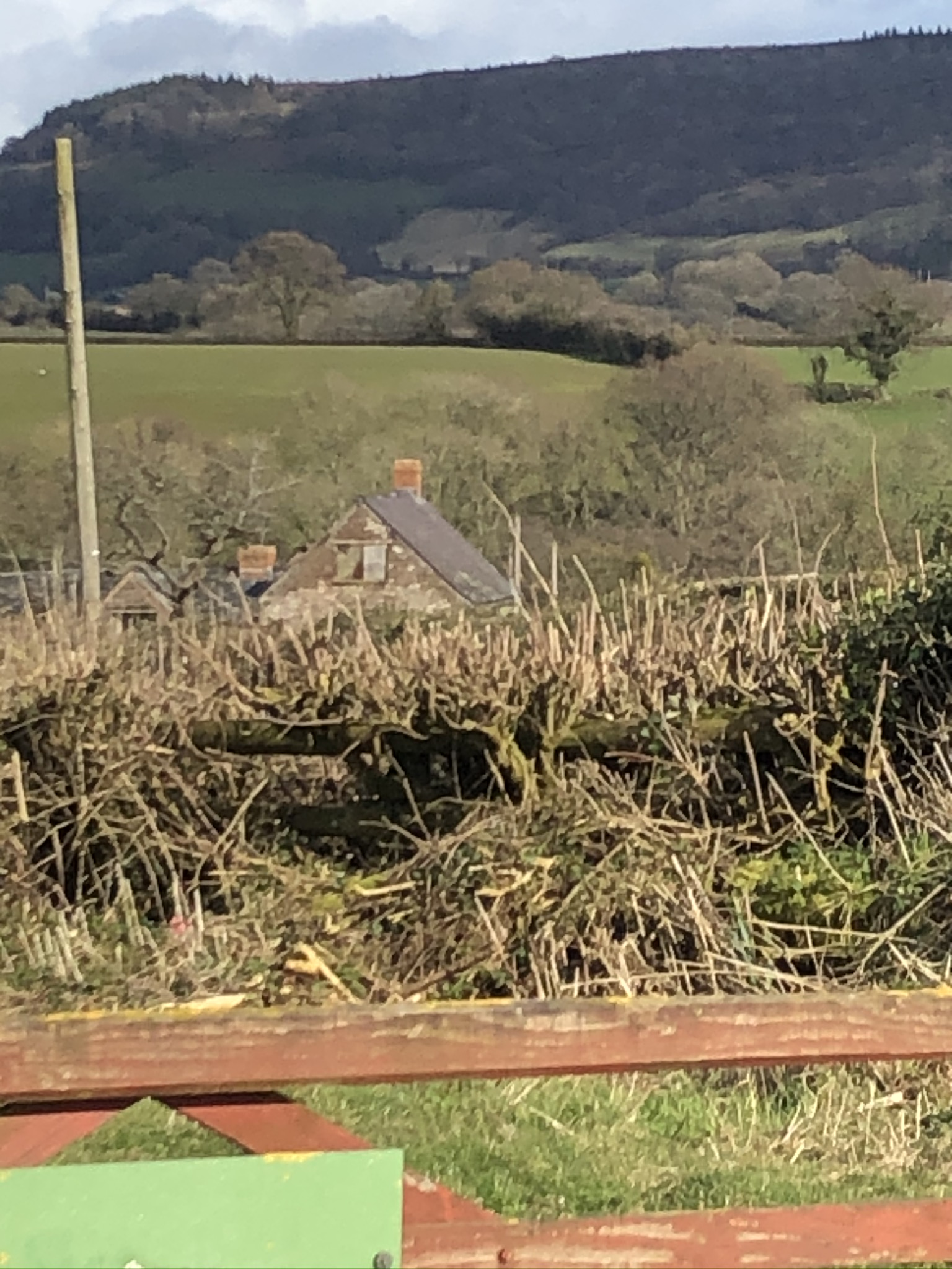 The roofs of Lower Ceillau.